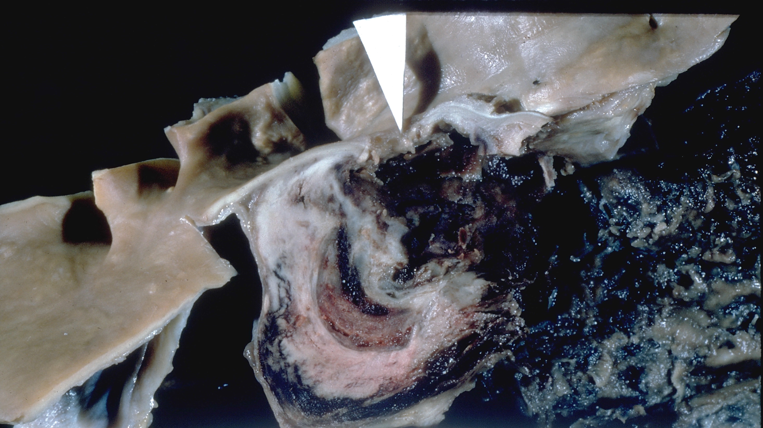 The pointer indicates the area of rupture of the aortic wall that led to the formation of the pseudoaneurysm which eventually ruptured. The thick fibrous wall of the pseudoaneurysm indicates that it had been present for a long time.